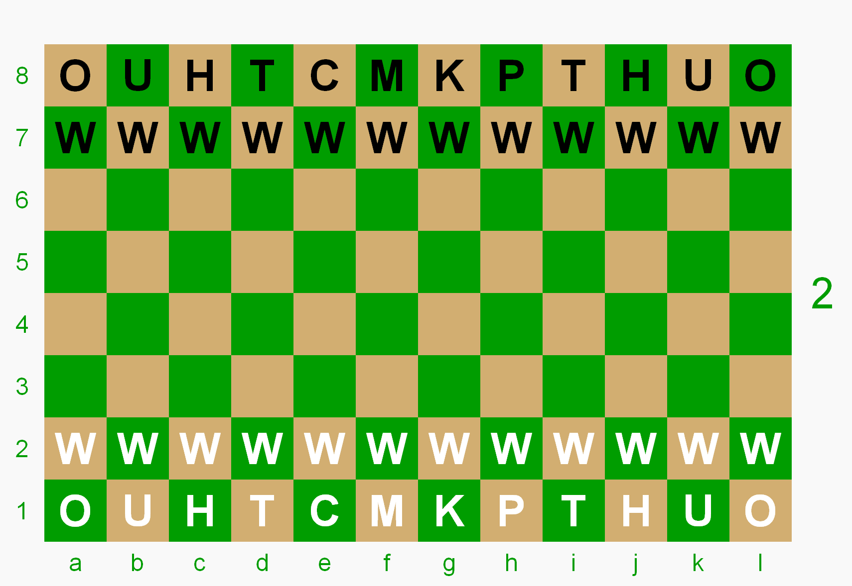 depicts Dragonchess middle board starting position